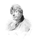 Portrait of Thomas Johnes, Hafod Estate, Ceredigion, Wales.